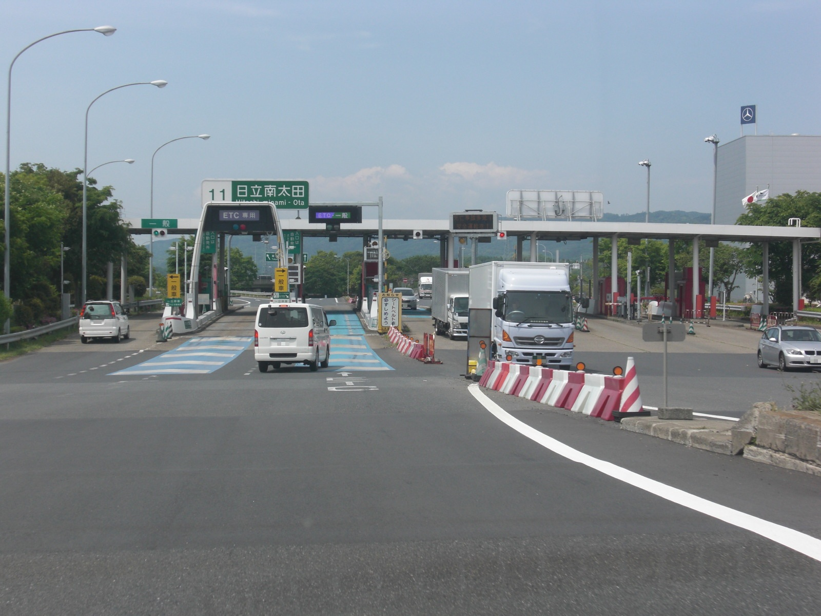 This is an interchange in Joban Expressway.